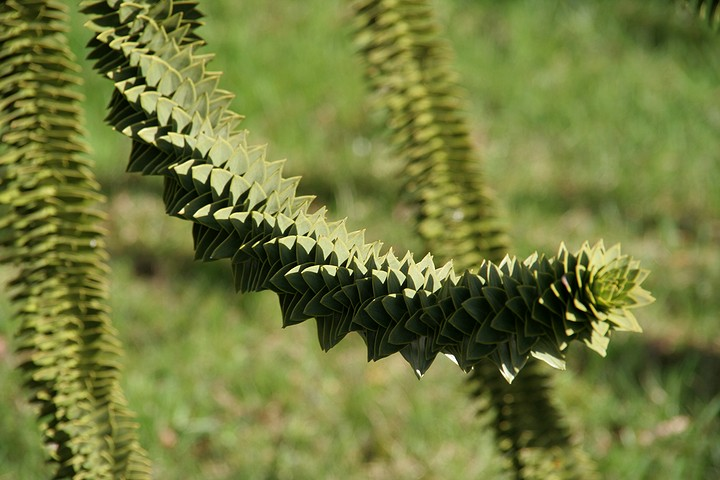 A branch of Araucaria araucana, a tree called the "despair of monkeys" because of sharp spines that cover entire branches.